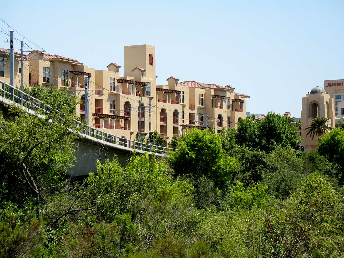 Mission Valley, San Diego, CA